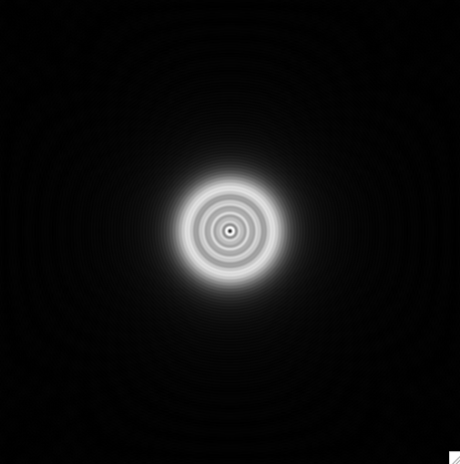 half inch perfect lens real amplitude measured at focus with a Fresnel number equals 0.01